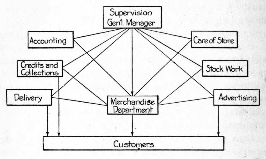 Chart showing Internal Organization of Specialty Store, 1915